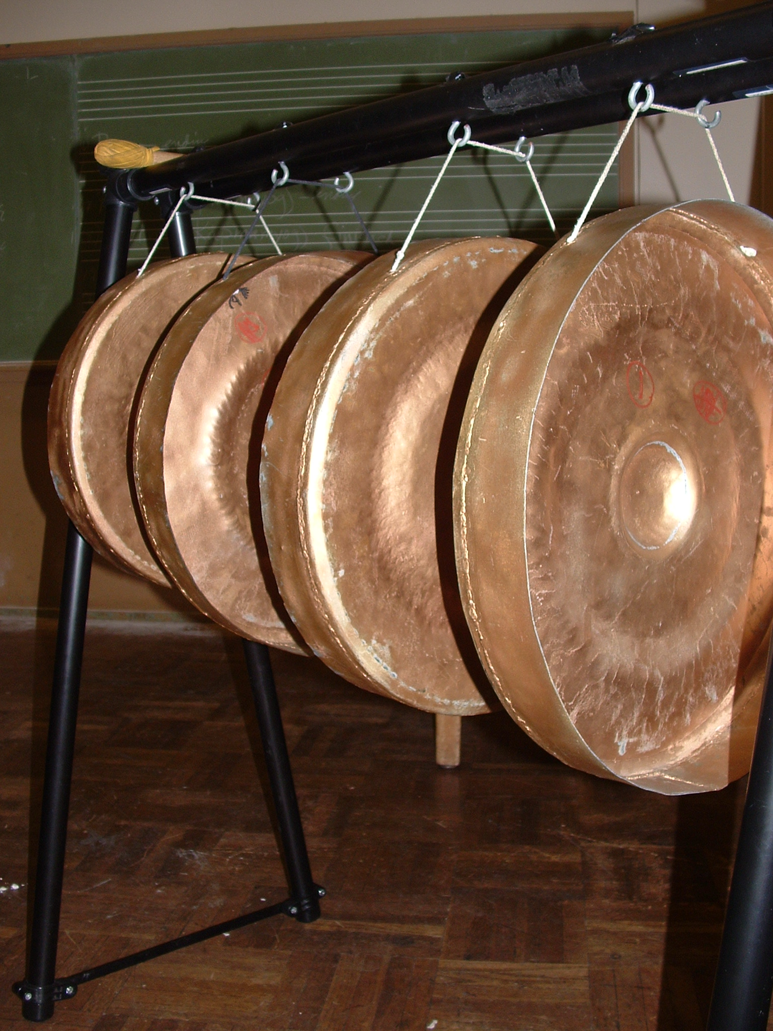 The four Philippine vertically hanged gongs known as the gandingan used as a secondary melodic instrument in the kulintang ensemble. (The four vertical brass hanging gongs that make up the instrument known as the gandingan. This instrument in particular is used by Master Danongan Kalanduyan at San Francisco State to teach his kulintang class.)